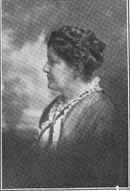 "The American Club Woman Magazine" Dr. Mary Gage Day, Chair, Public Health, New York